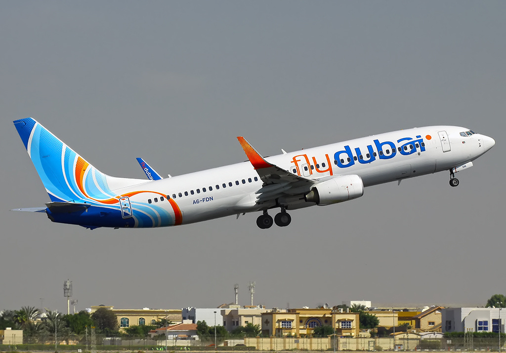 Flydubai Boeing 737-800 (A6-FDN) seen at Dubai International Airport. This aircraft crashed as Flydubai Flight 981 in Rostov-on-Don on 19 March 2016